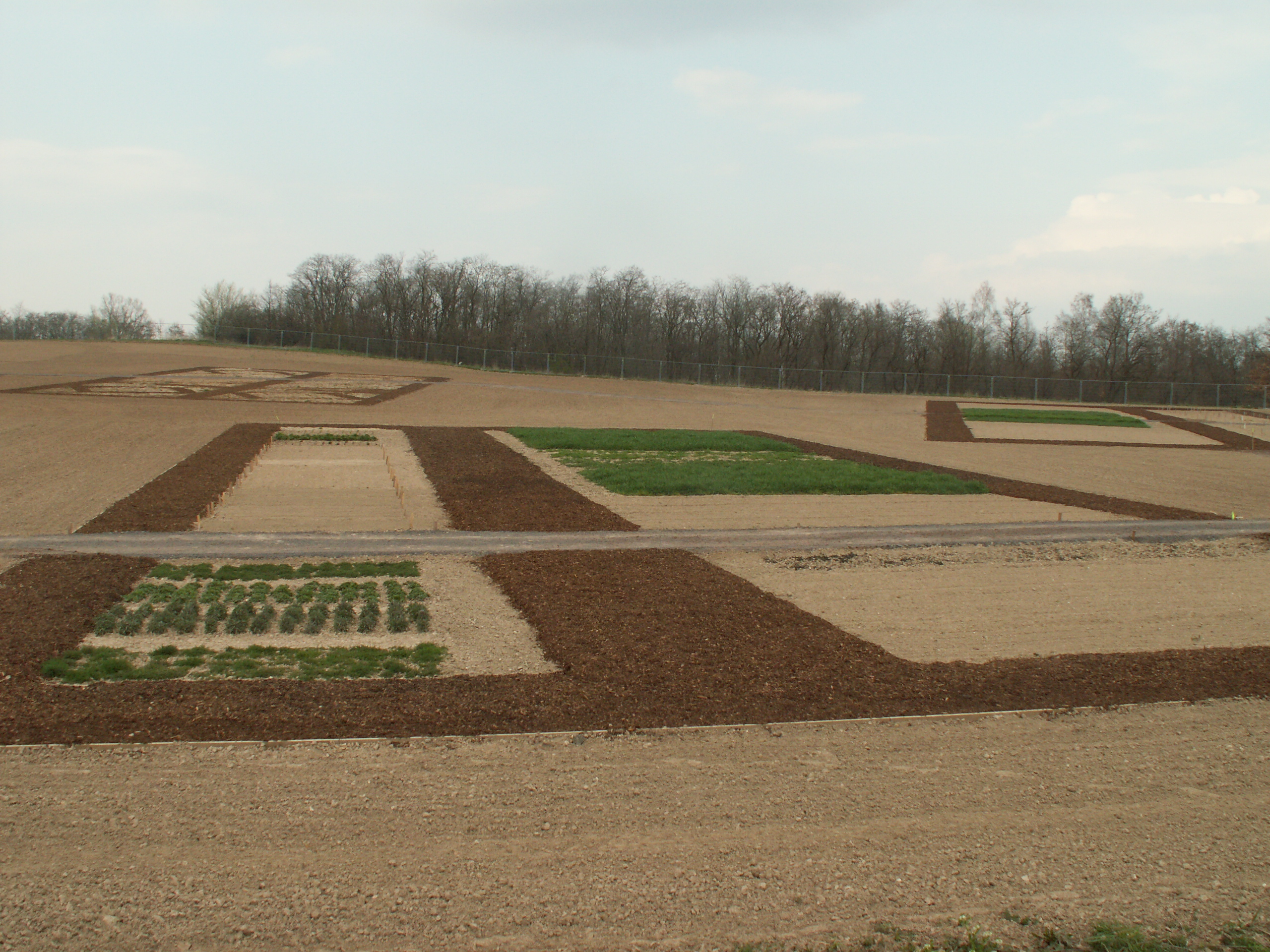 Neue Landschaft Ronneburg in Ronneburg, Thuringia, Germany, four weeks before the opening of Bundesgartenschau 2007